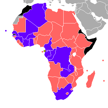 Status of countries with respect to 2015 Africa Cup of Nations: To be determined Qualified Failed to qualify Withdrew, disqualified or did not enter Not an associate member of CAF